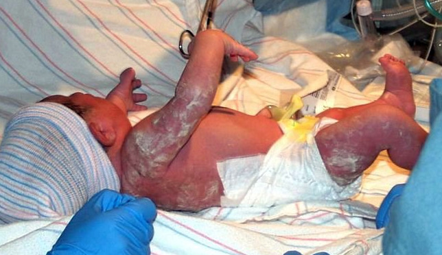 Photo of Jazlyn Rose a few minutes after her birth. The white material on her is vernix. The hospital staff had it cleaned off of her in a short time.